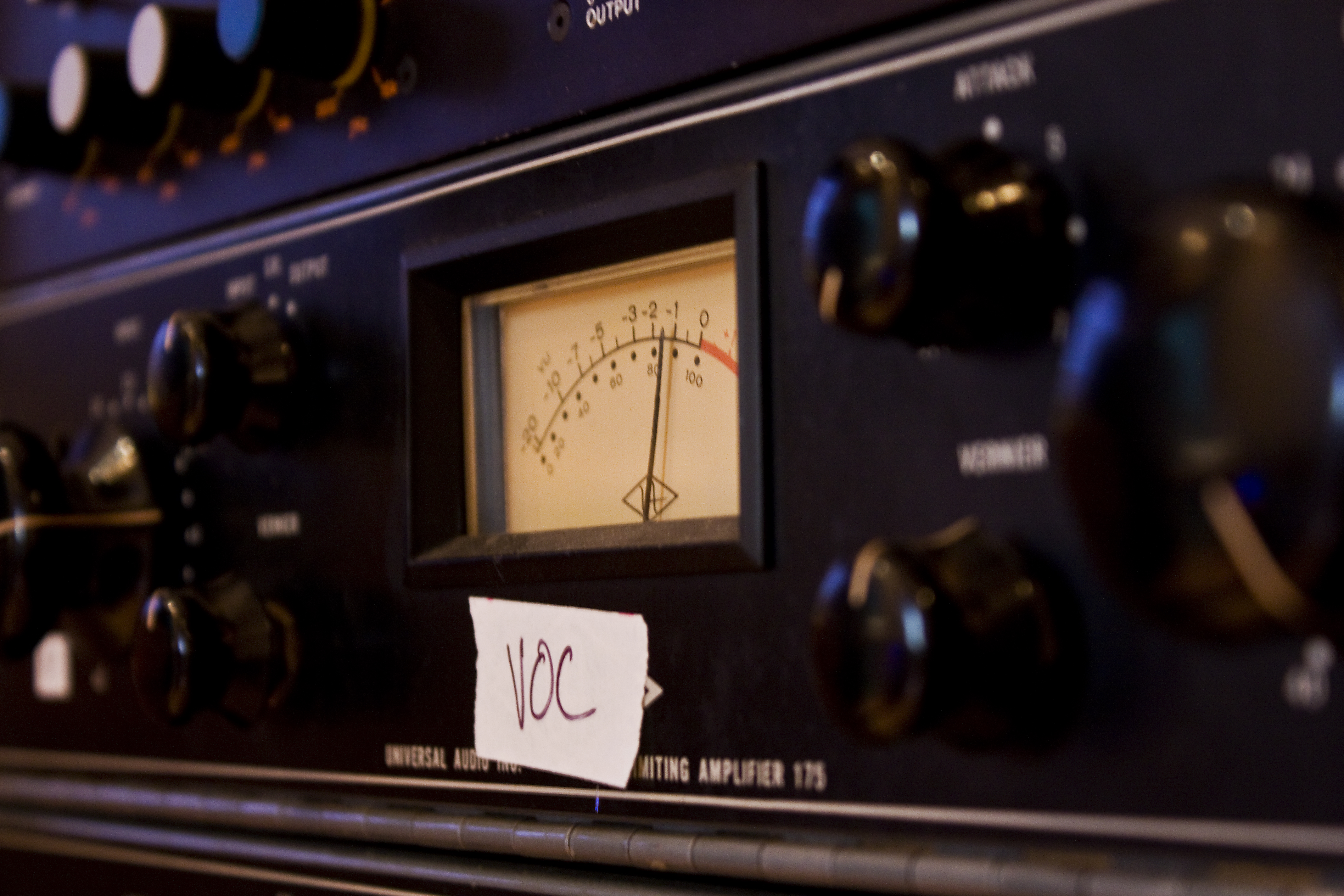 ua References Studio 1093, Athens, Georgia.